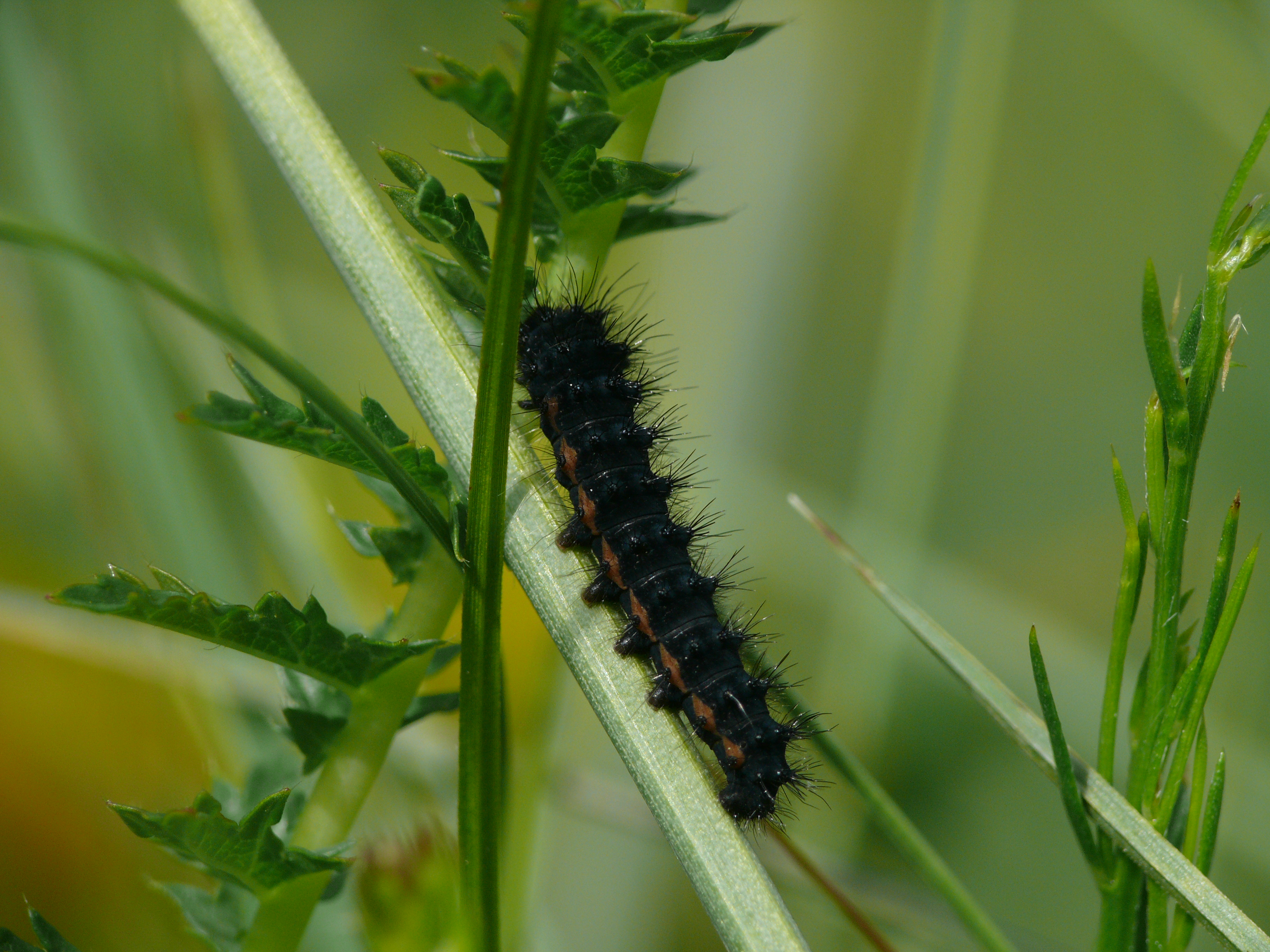 Young caterpillar of Saturnia pavoniella